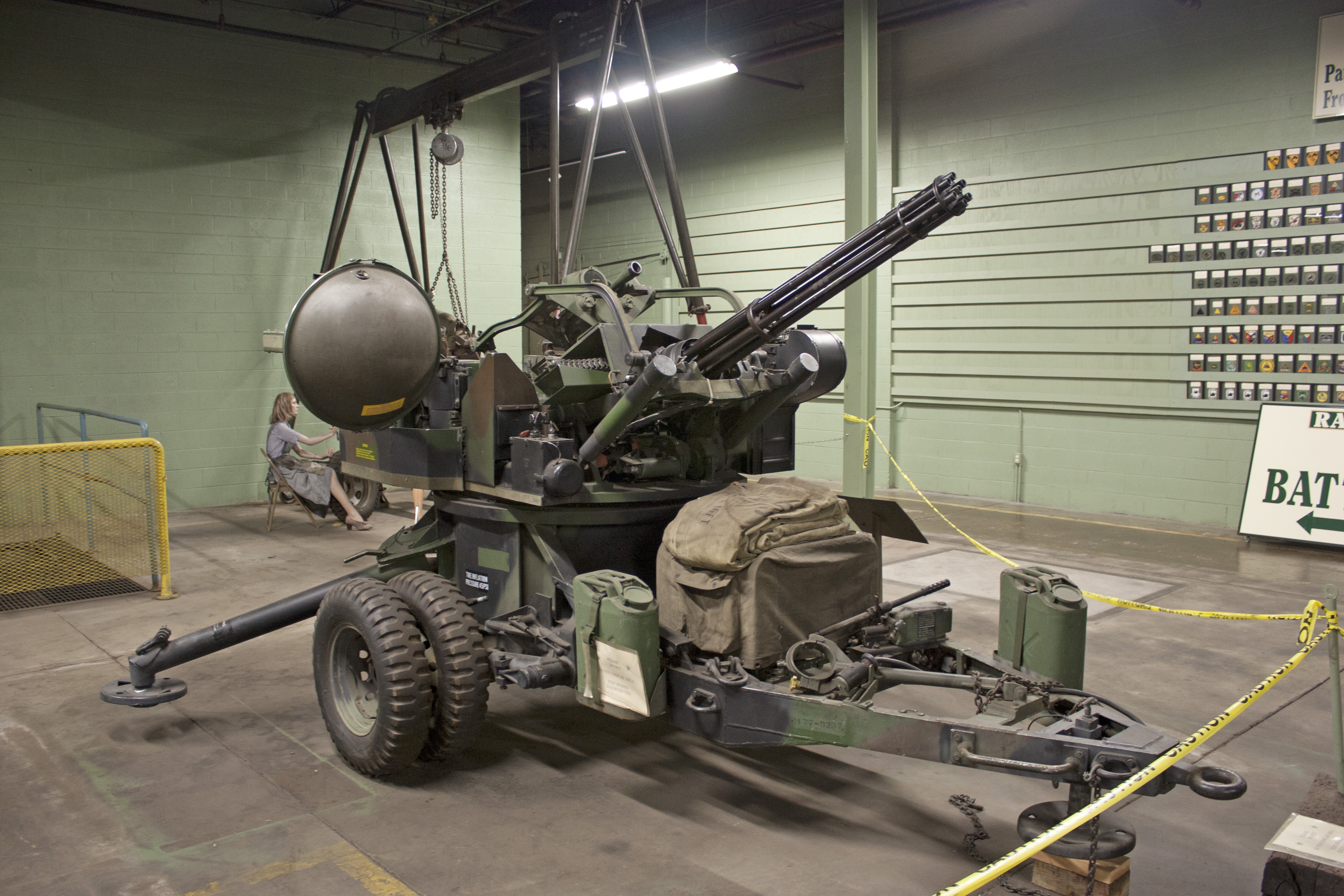 M167 Vulcan Air Defense System (VADS)